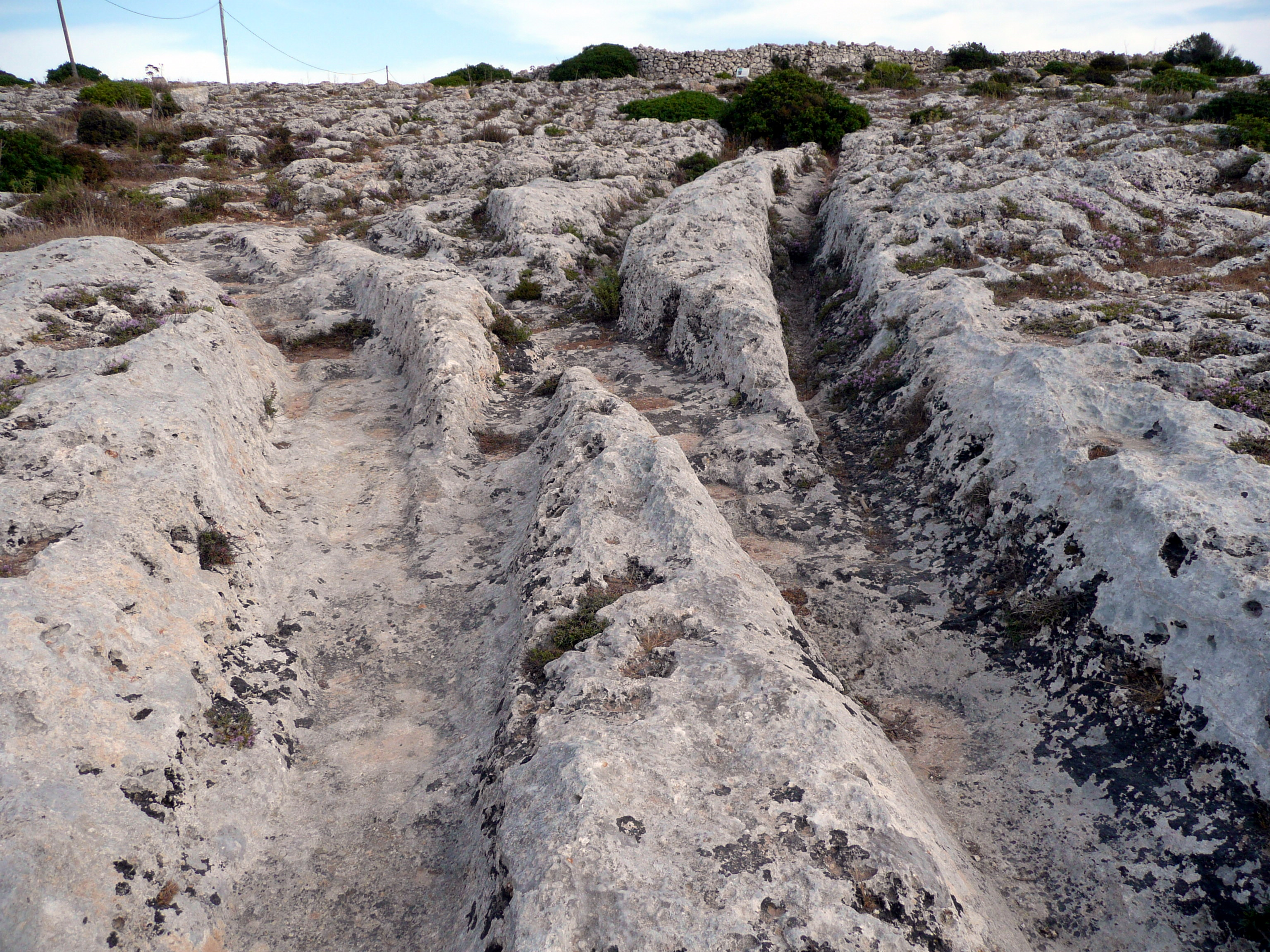 Cart Ruts in Misrah Ghar il-Kbir, Malta